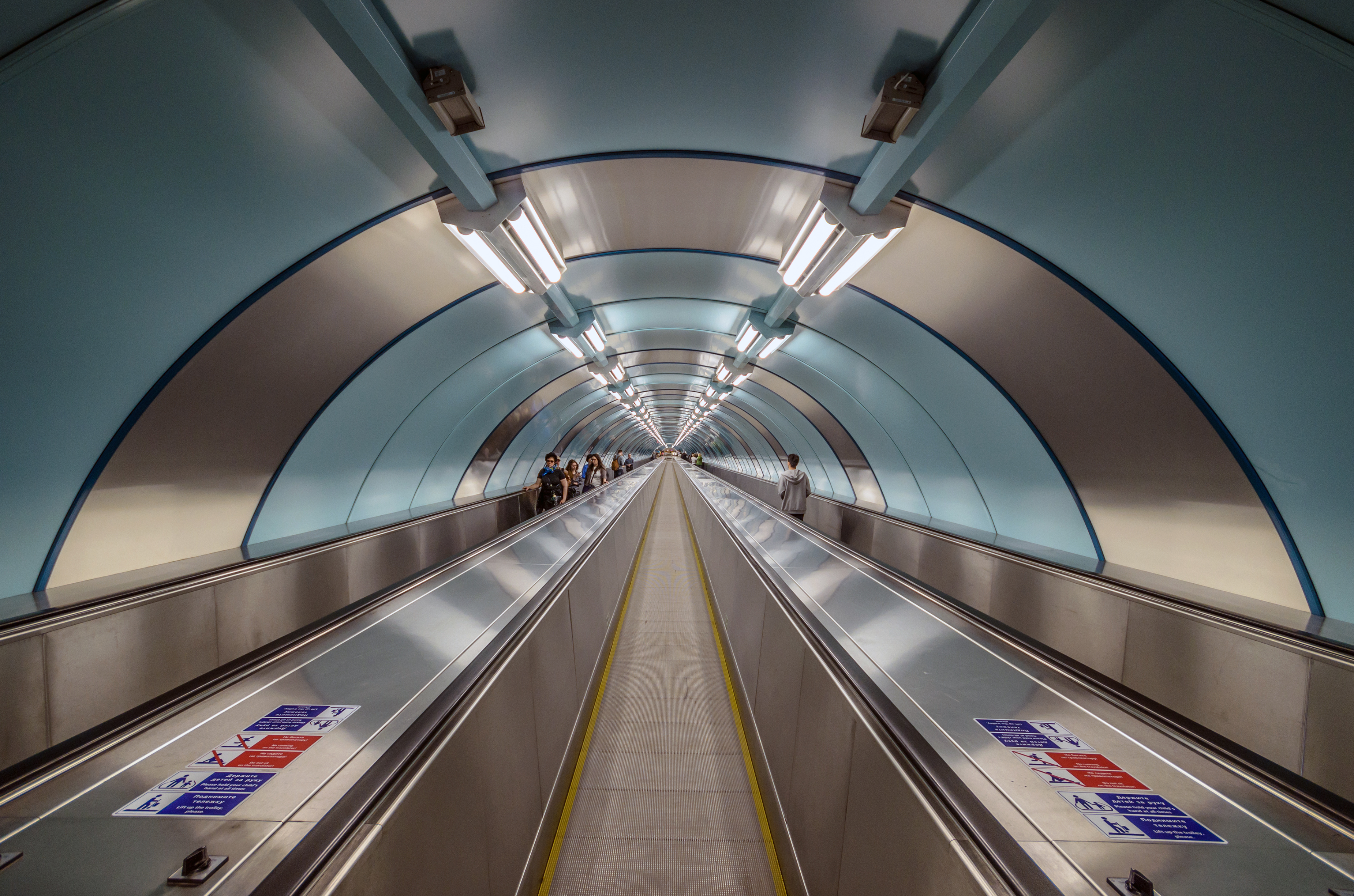 Sportivnaya subway station in Saint Petersburg, Travelator Tunnel